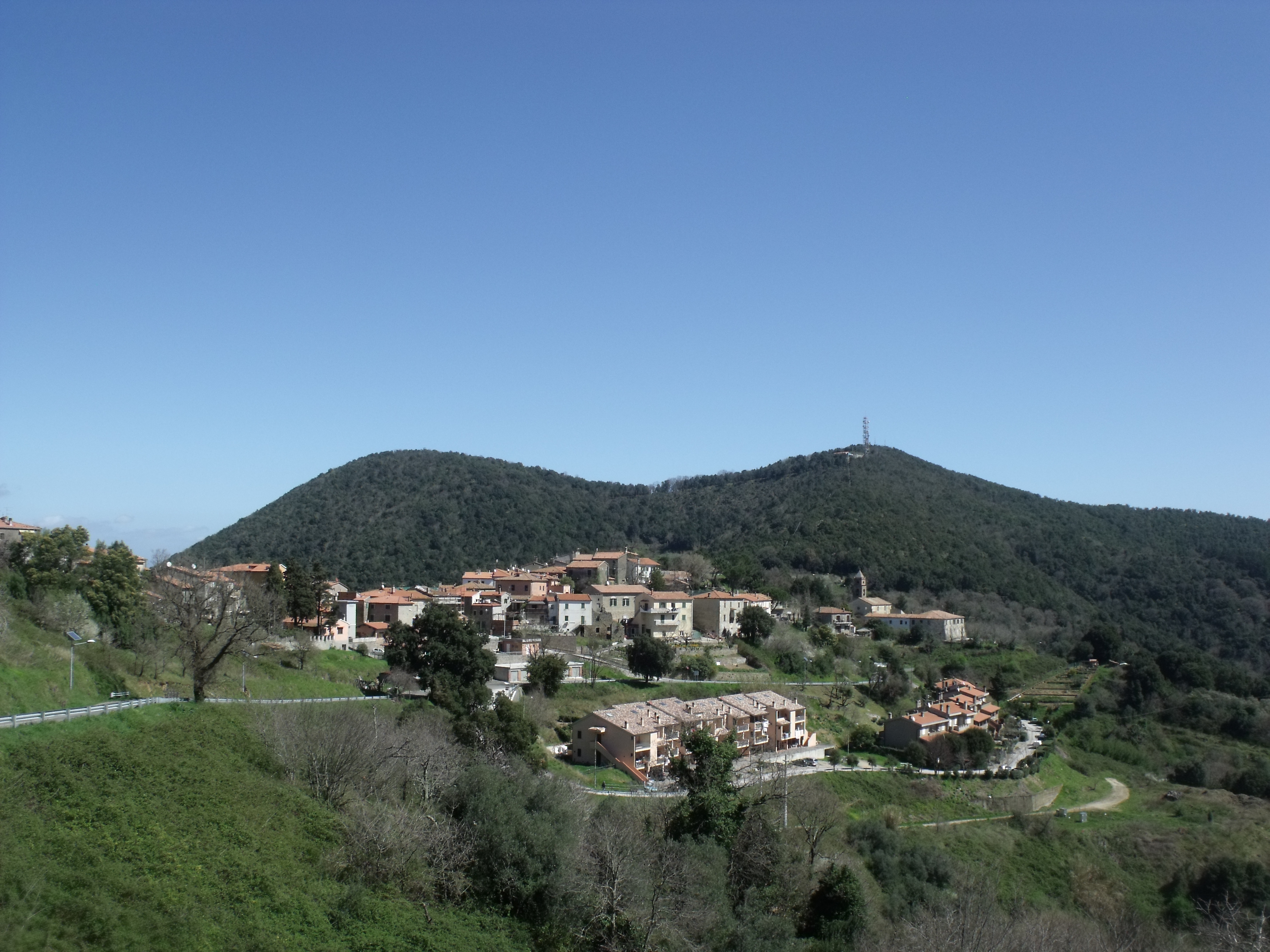 Panorama of Tirli, hamlet of Castiglione della Pescaia, Maremma, Province of Grosseto, Tuscany, Italy